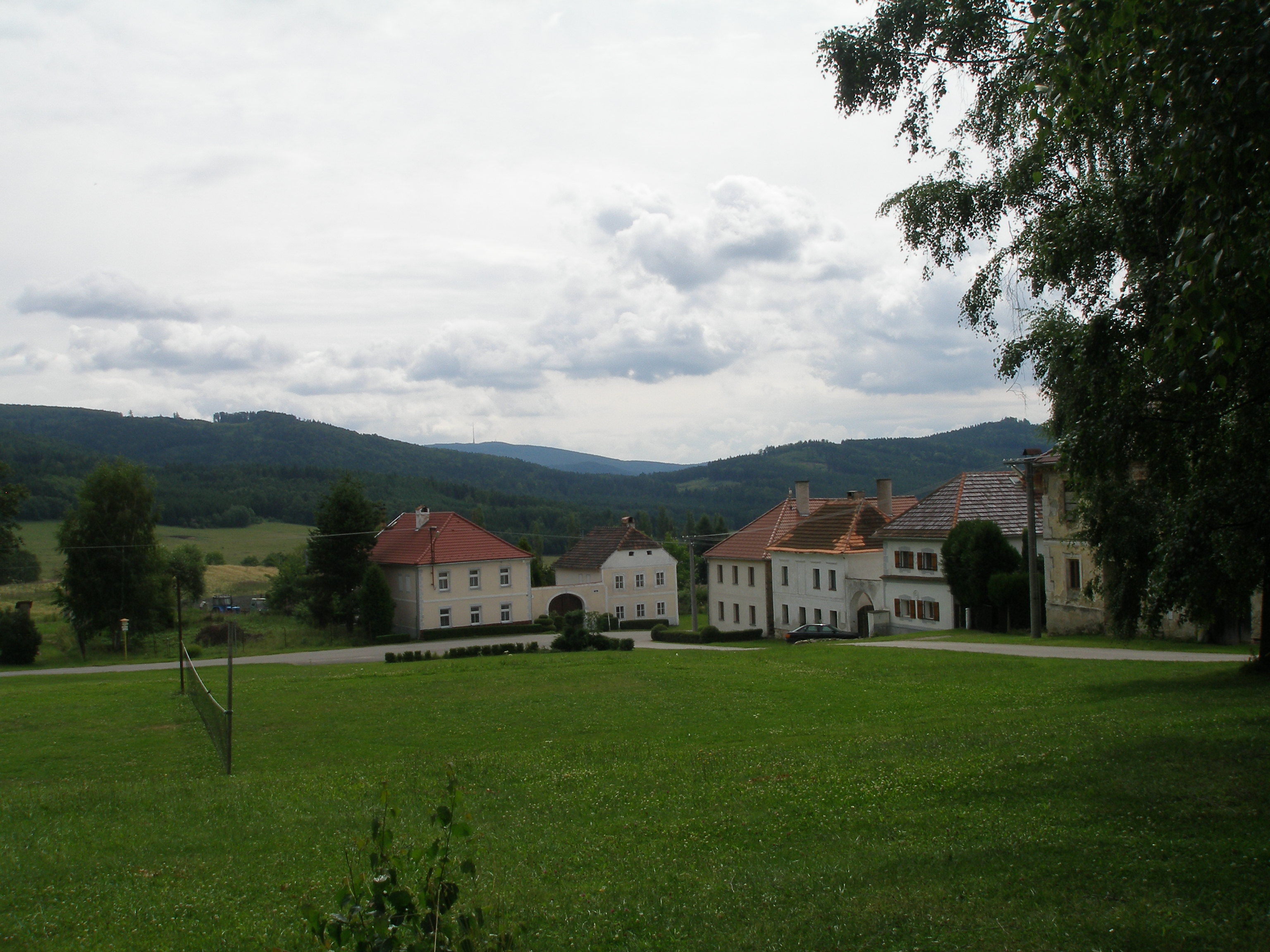 Březovík - the south-eastern corner of the square